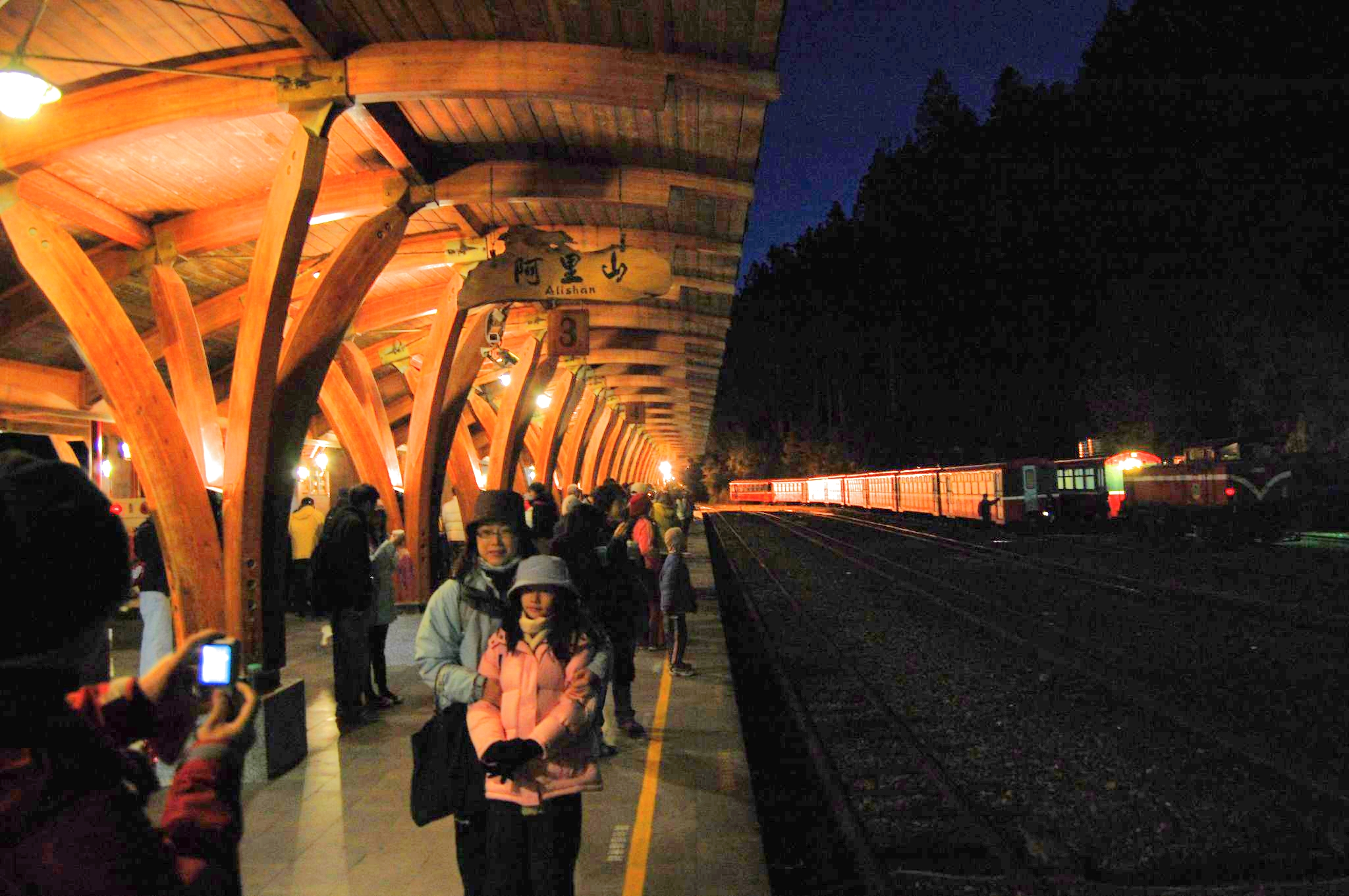 Gaidām vilcienu Alishan Forest Railway Alishan Station 阿里山森林鐵路阿里山車站